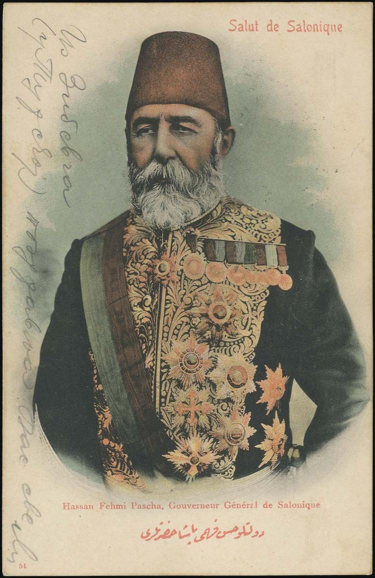 Postcard of Hassan Fehmi Pasha, Governor General of Salonika (Thessaloniki)